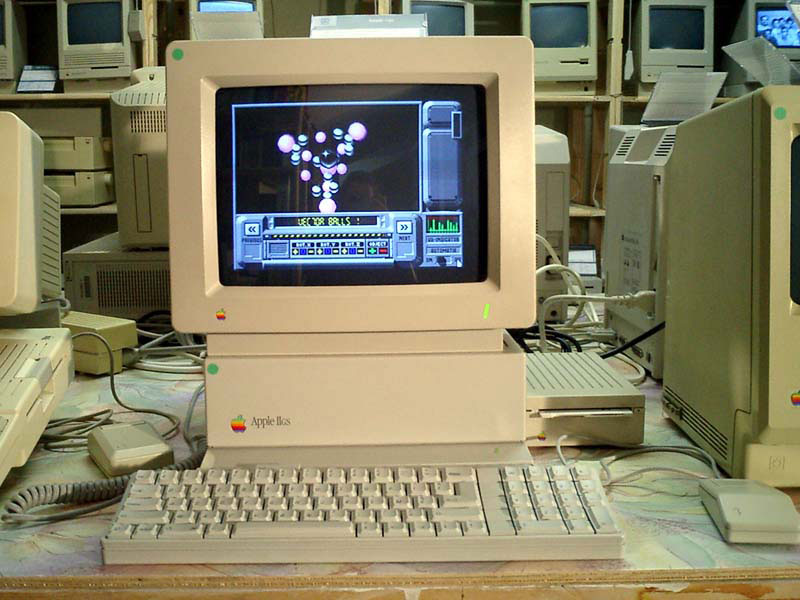 FTA's Modulae Demo on Apple IIGS.